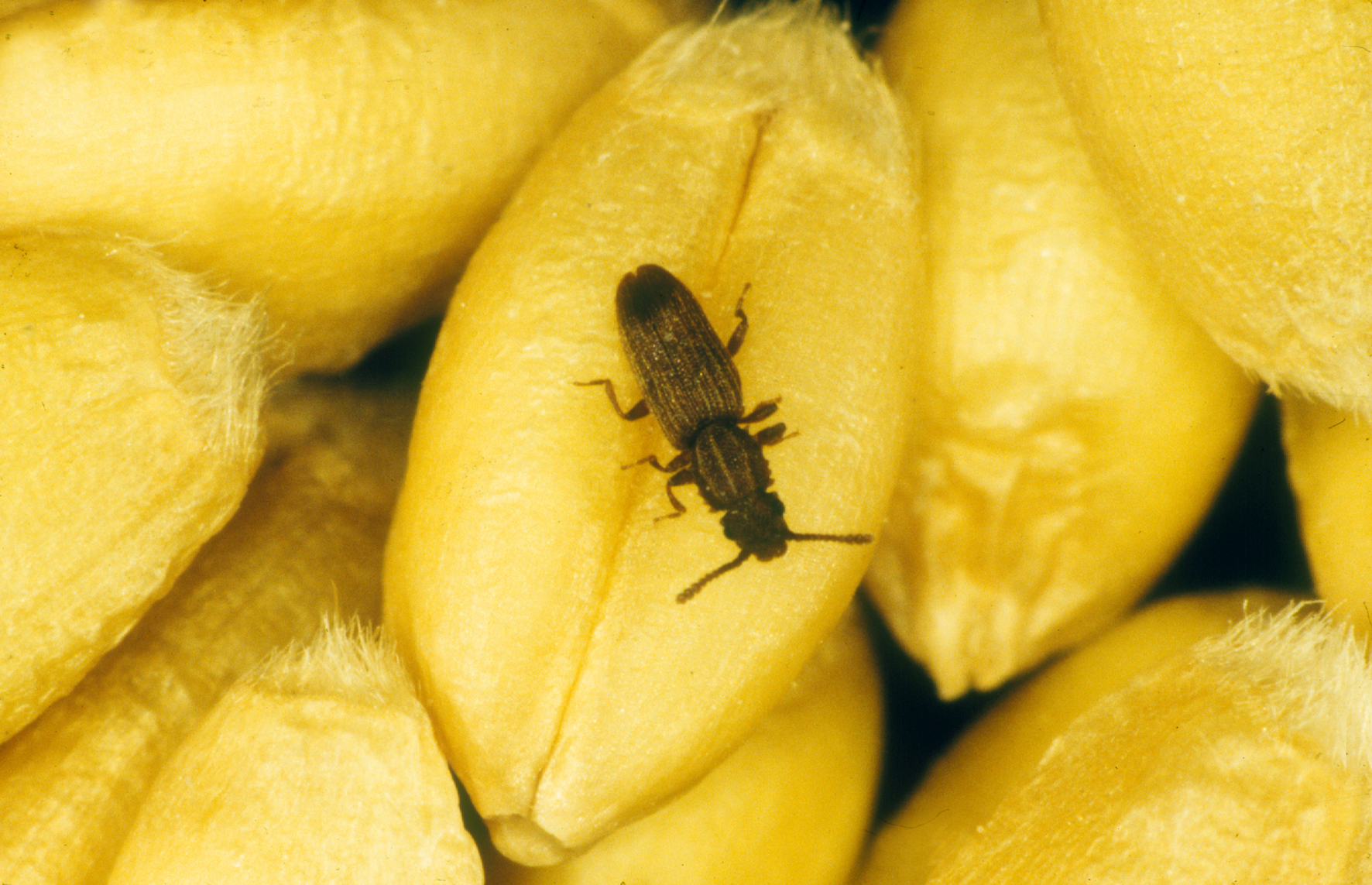 Sawtoothed grain beetle (Oryzaephilus surinamensis ) is a pest in stored grains.